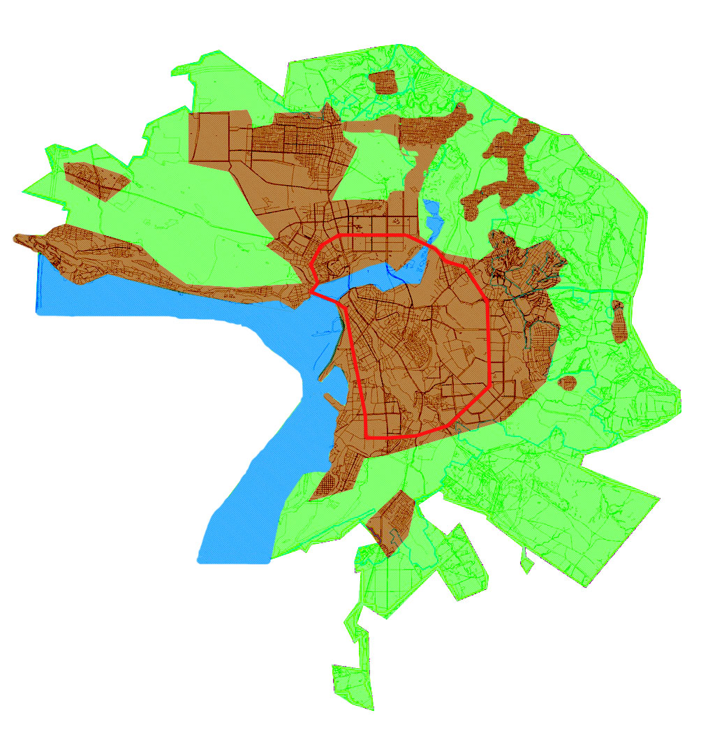 Great Kazan ring Татарча/tatarça: Zur Kazan bojra